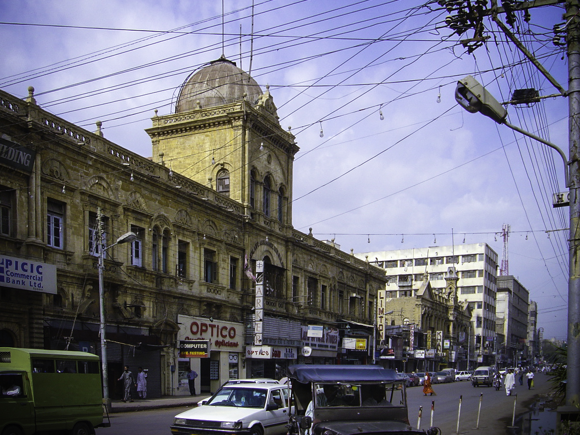 This is a photo of a monument in Pakistan identified as the SD-P-164